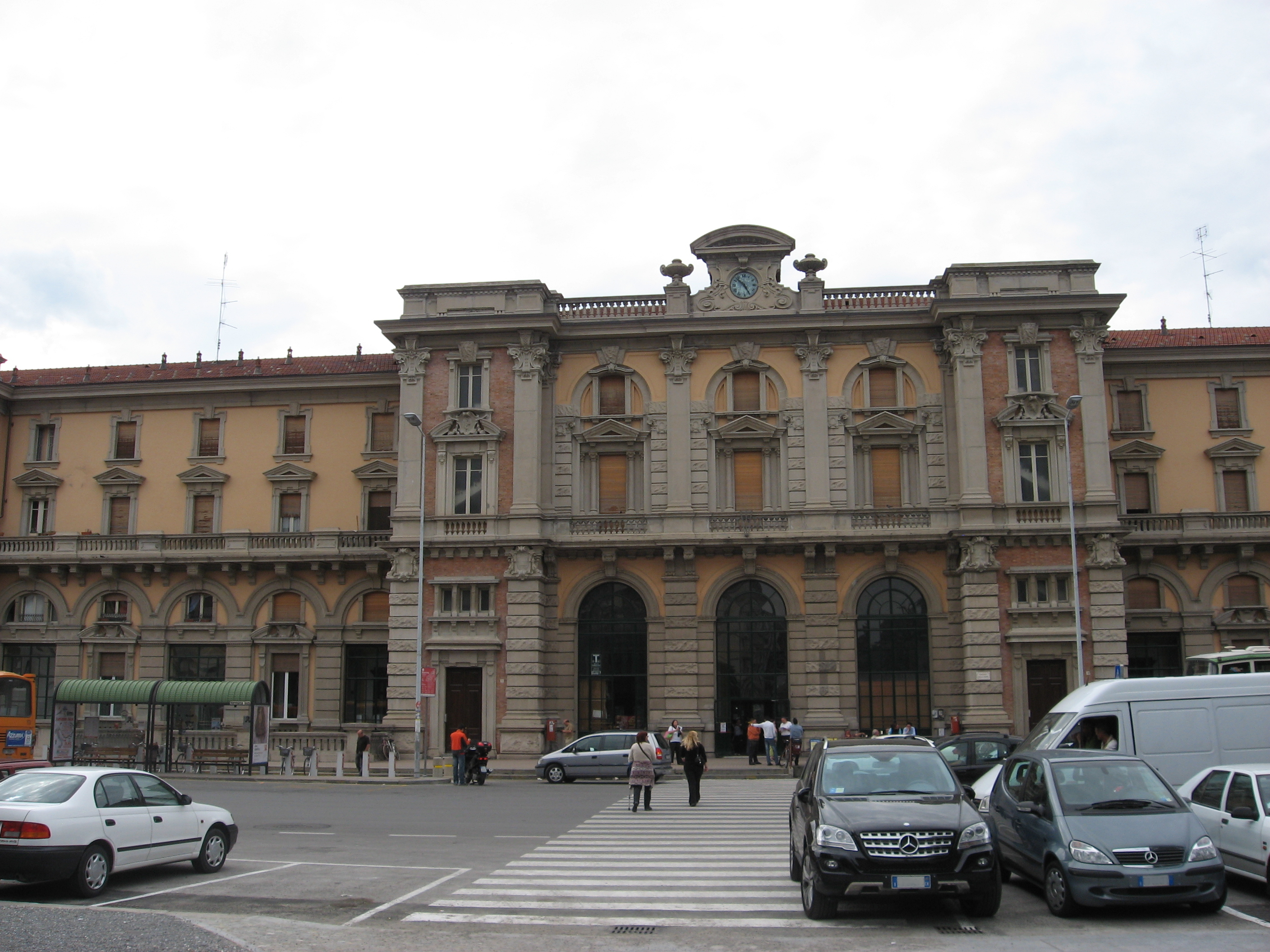 The main train station in Cuneo, Italy